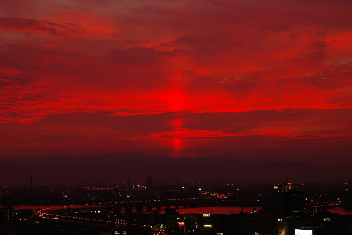 Sun Pillar (Sunset) at Osaka City, Japan